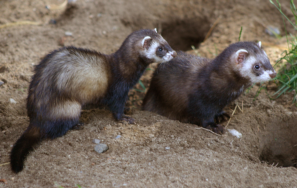 Polecats (Mustela putorius) at Skandinavisk Dyrepark, Djursland, Denmark